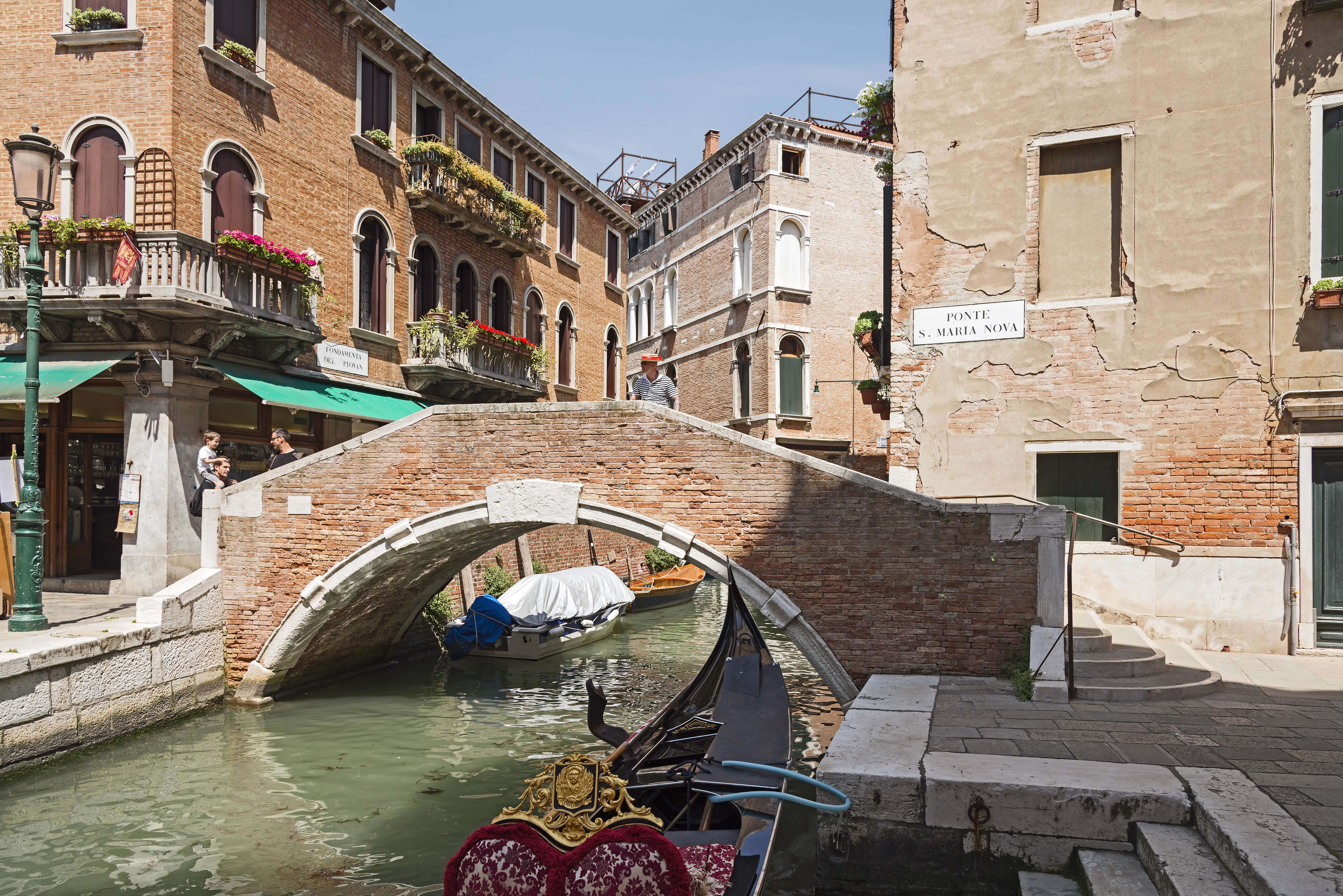 Ponte Santa Maria Nova on rio dei Miracoli - Venice